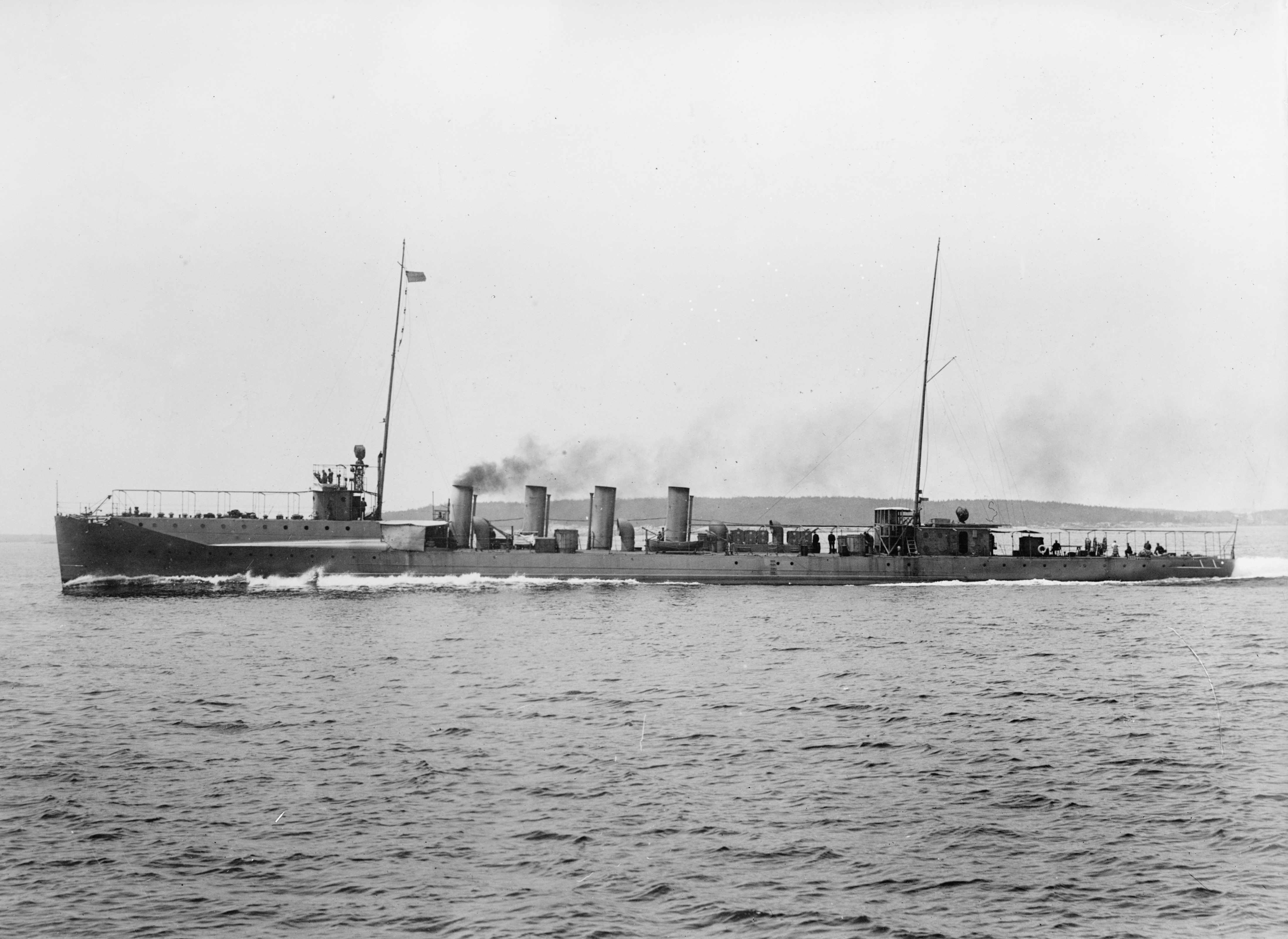 The U.S. Navy Cassin-class destroyer USS Downes (DD-45). The photo is dated "1913", although Downes was launched on 8 November 1913 and commissioned on 11 February 1915. Note that the ship is not armed yet.